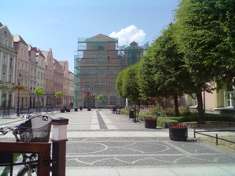 Market Square in Bolesławiec (south-eastside)